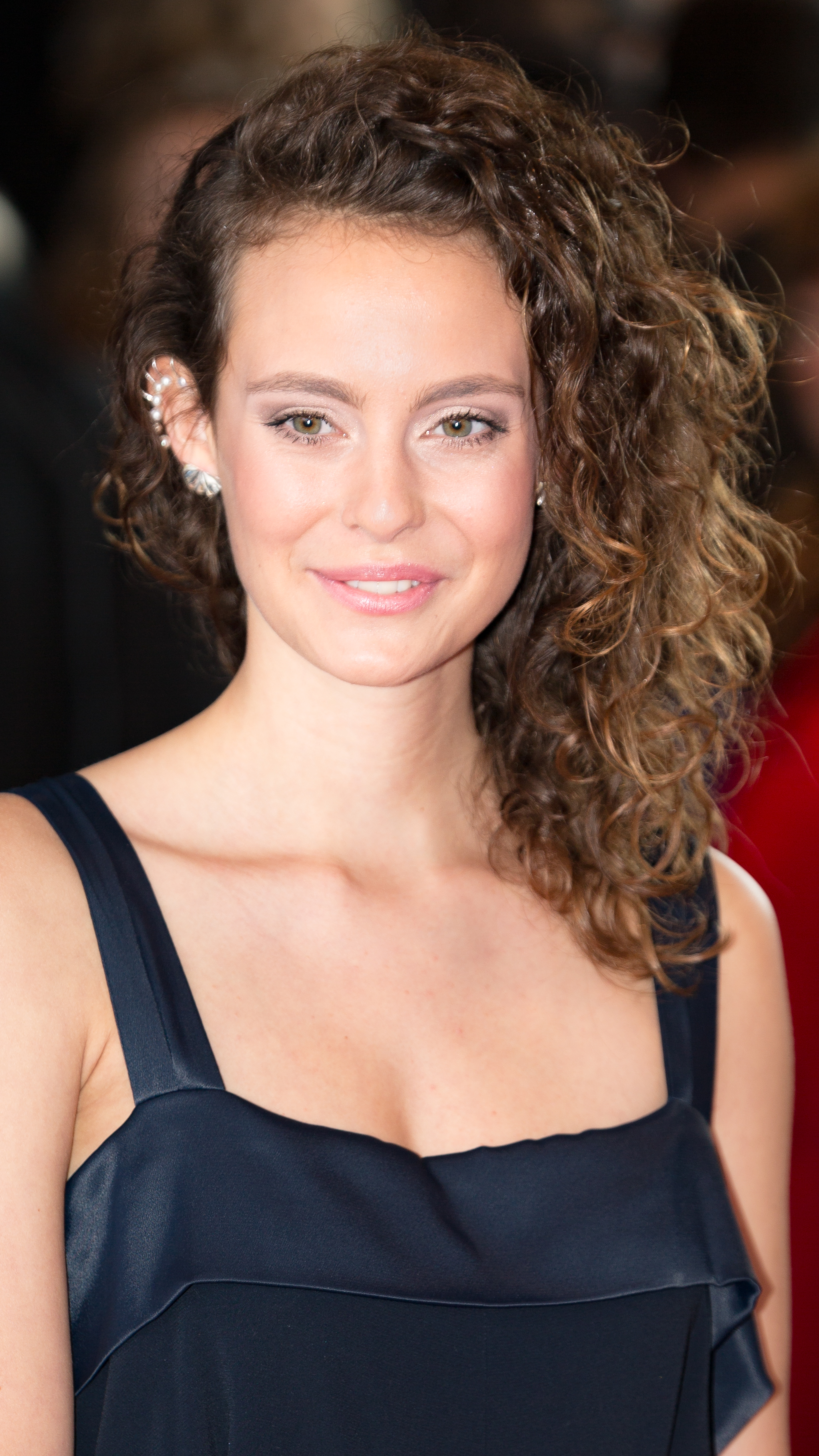 Muriel Wimmer at the screening of The Same Sky, Berlinale 2017